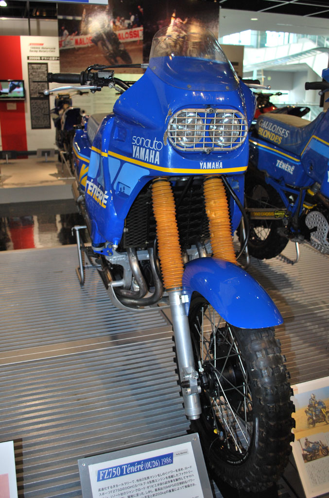 Yamaha FZ750 Tenere ( Jean-Claude Olivier, Dakar Rally 1986 ) ヤマハFZ750テネレ（1986年ダカール・ラリーでジャン・クロード・オリビエが乗ったマシン）、ヤマハ・コミュニケーションプラザにて撮影